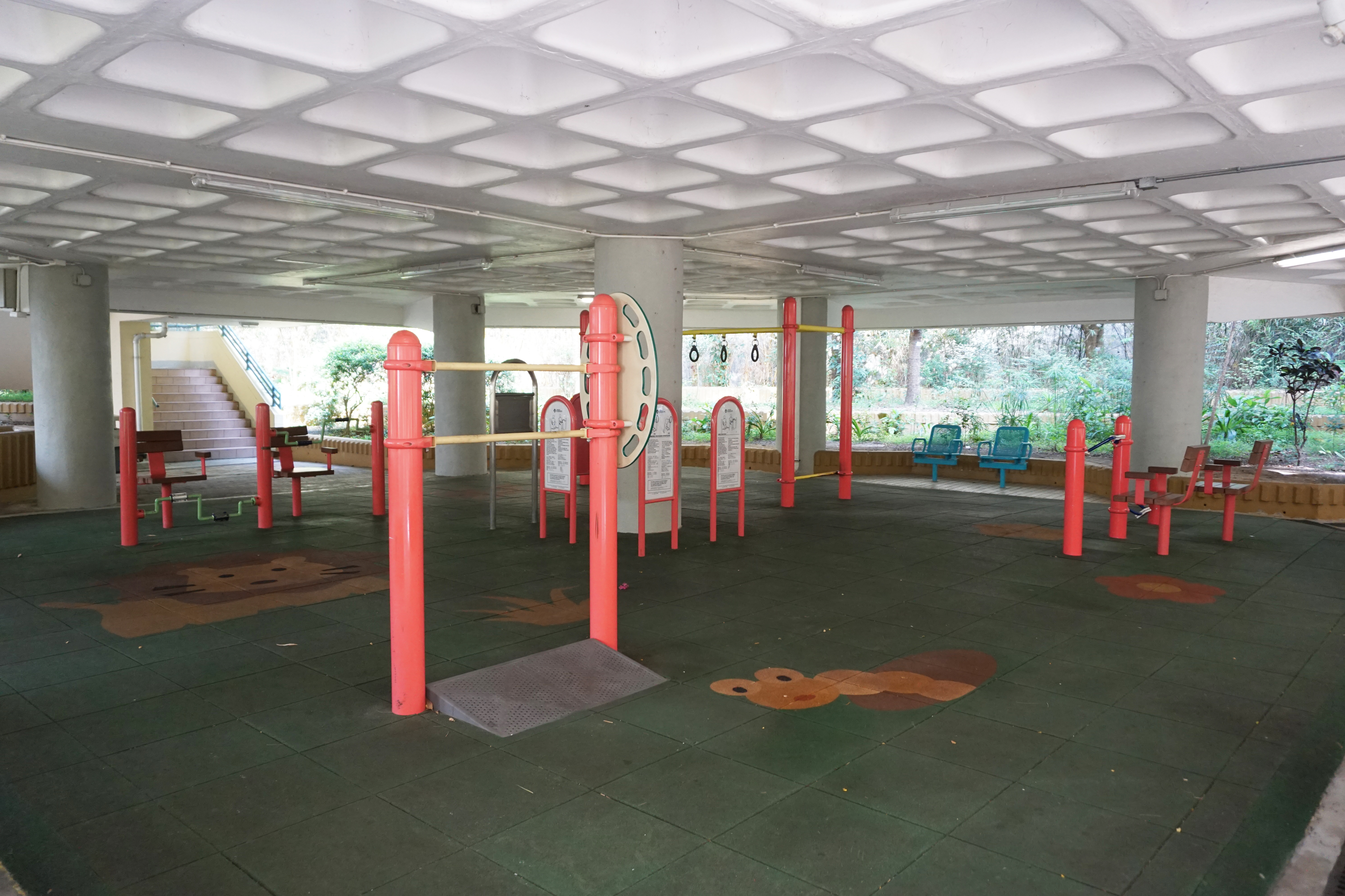 Tai Hang Tung Estate in Shek Kip Mei, Hong Kong.